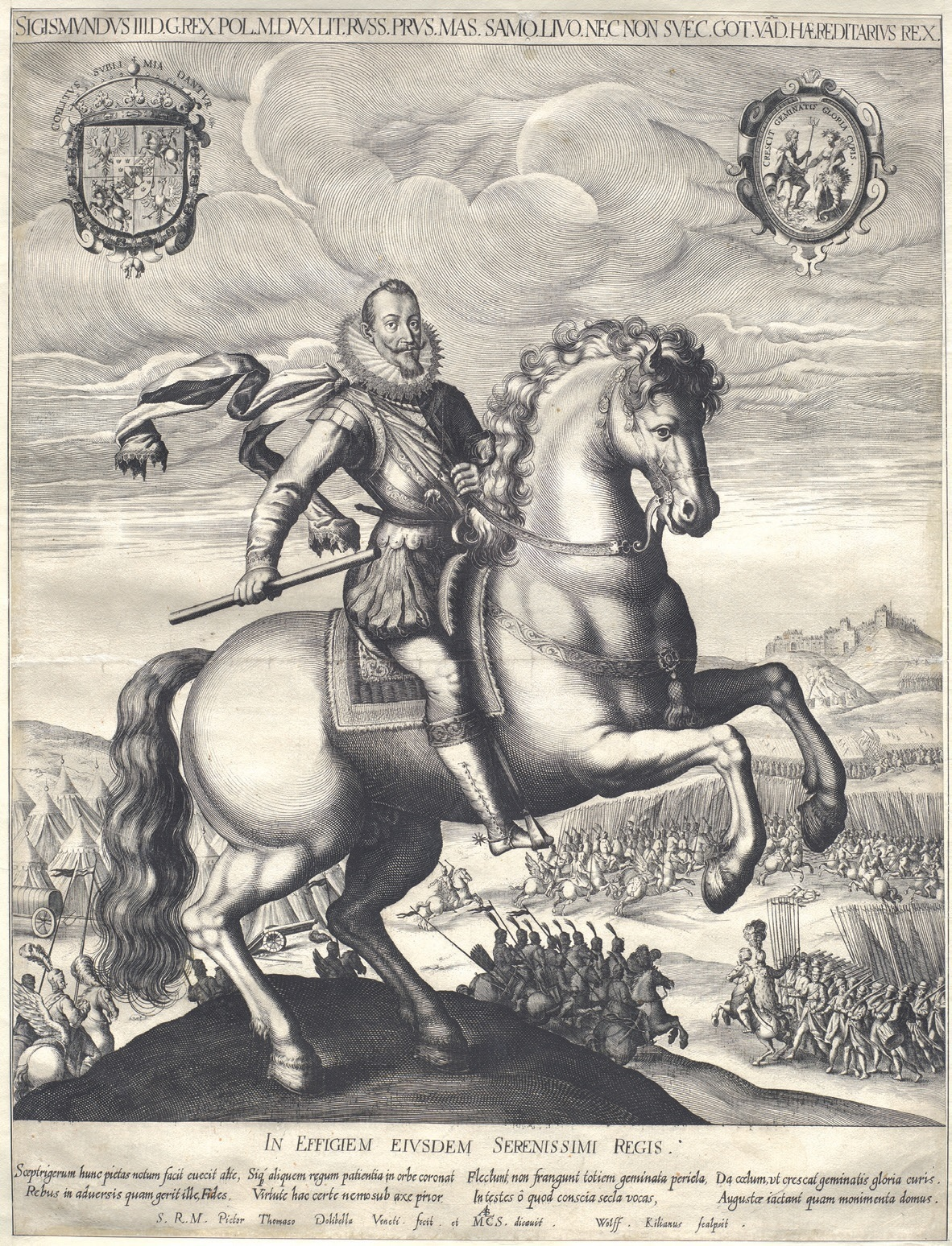 Equestrian portrait of king Sigismund III Vasa.label QS:Len,"Equestrian portrait of king Sigismund III Vasa."label QS:Lpl,"Portret konny króla Zygmunta III Wazy."